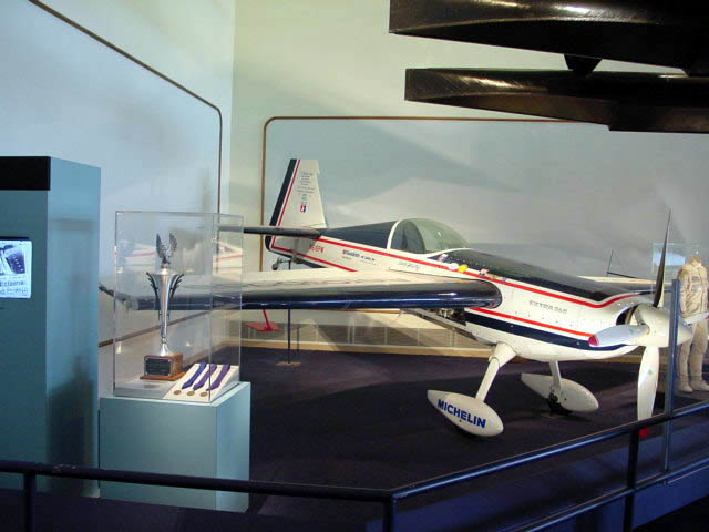 I was shocked at how tiny this plane is. Great backgrounder here